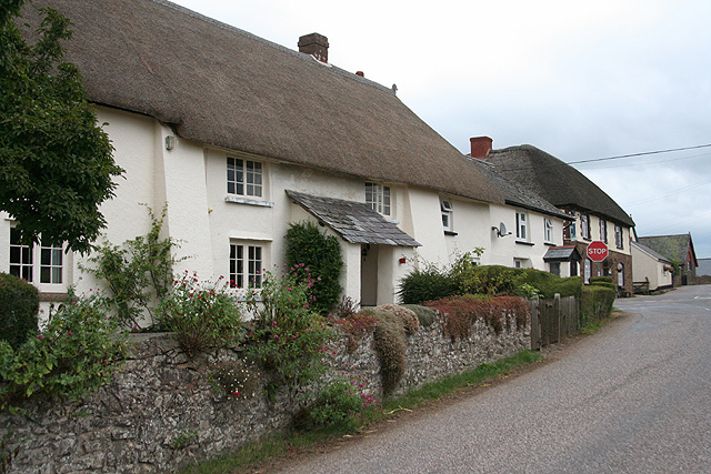 Woolfardisworthy: Black Dog. Looking east-north-east with Tree Cottage nearest the camera. Beyond the crossroads stands the Black Dog Inn. The road ahead leads to Tiverton